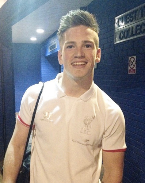 Ryan Kent after the game Liverpool U21s beat Everton U21s 3-1 during 2014/15 season. He scored 2 goals at Goodison Park that day.